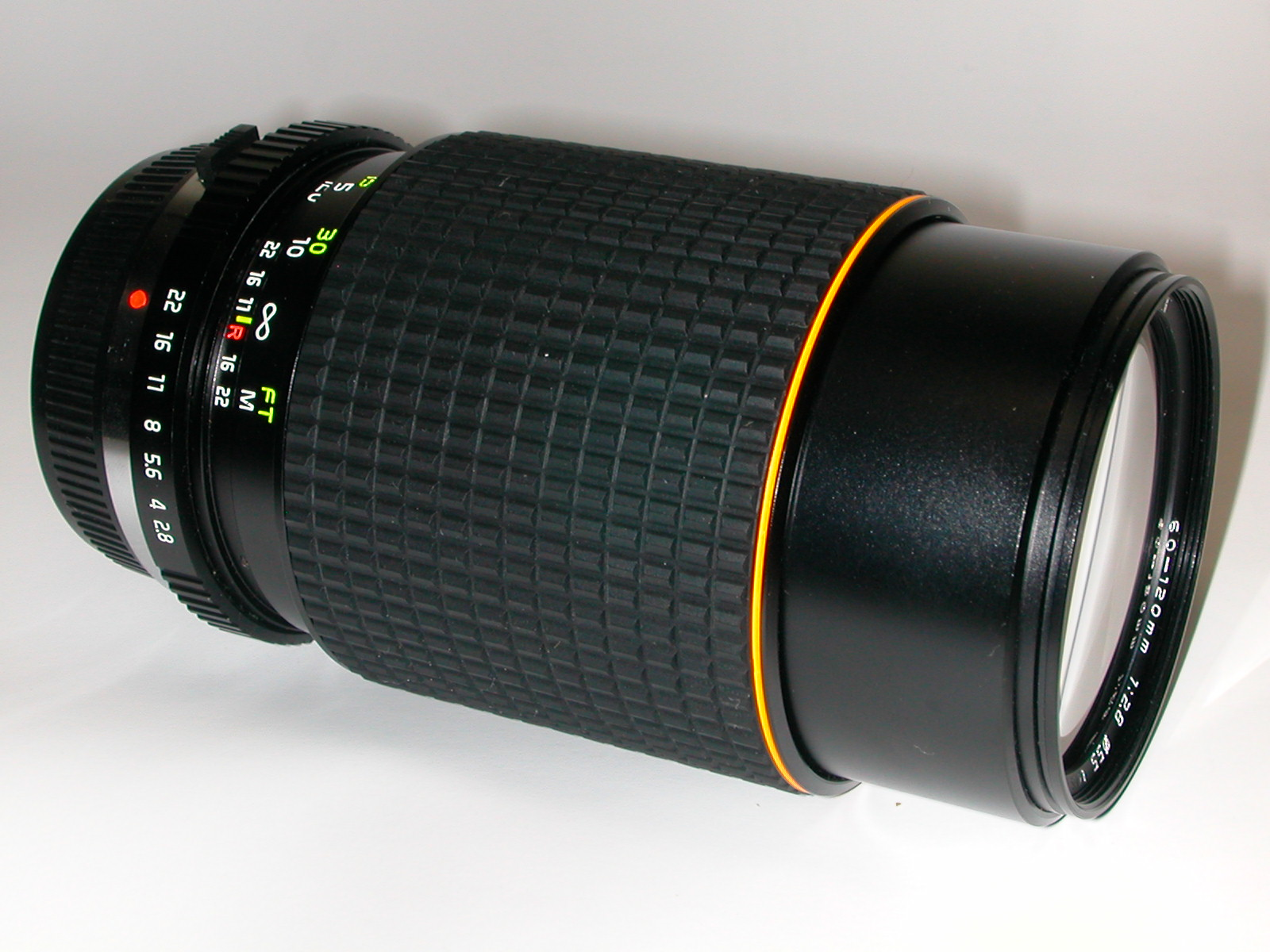 Tokina AT-X120 60-120mm/F2.8 (OM mount)